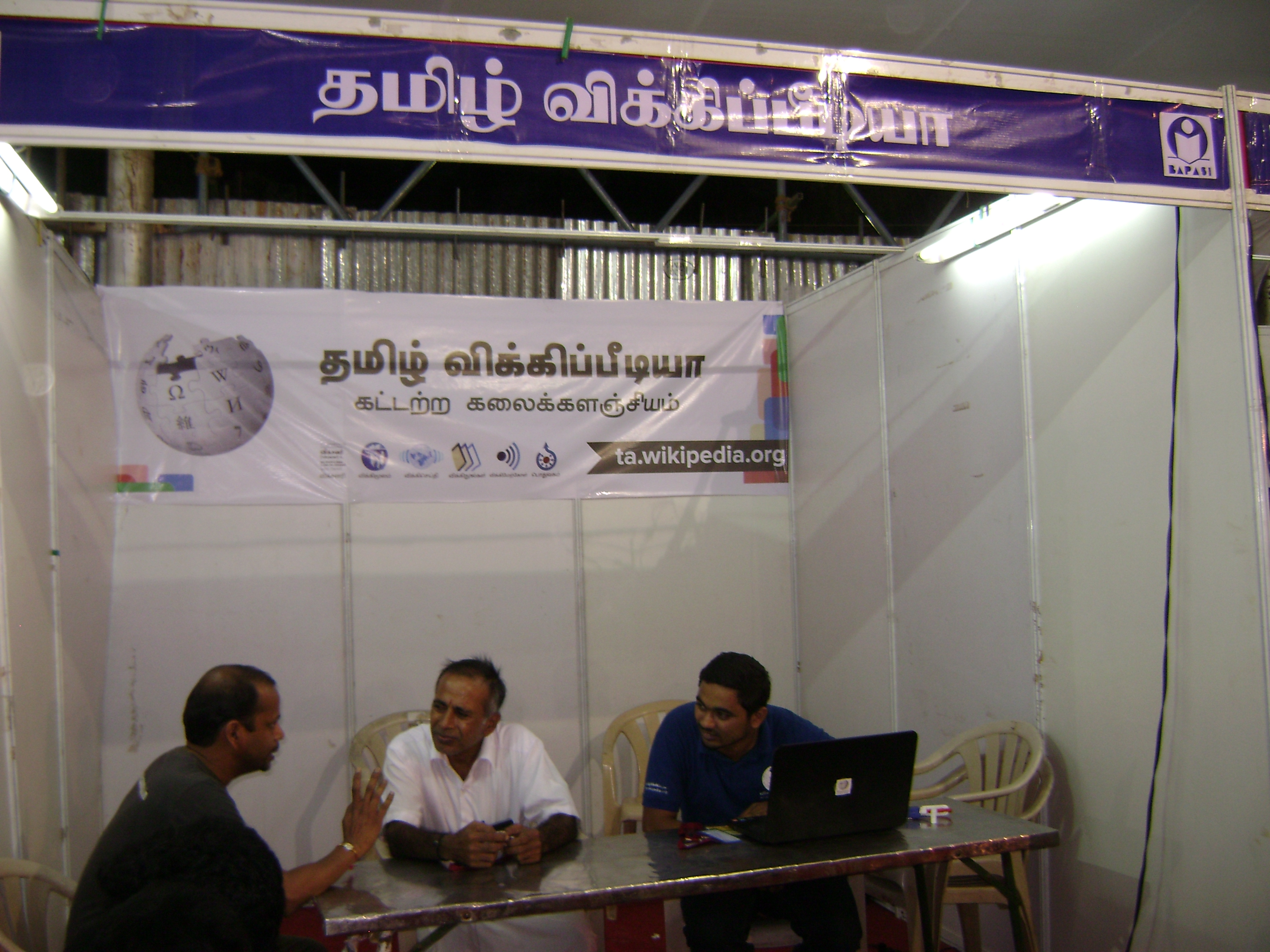 Tamil Wikipedia Stall in Madurai 10th Book Fair, 2015